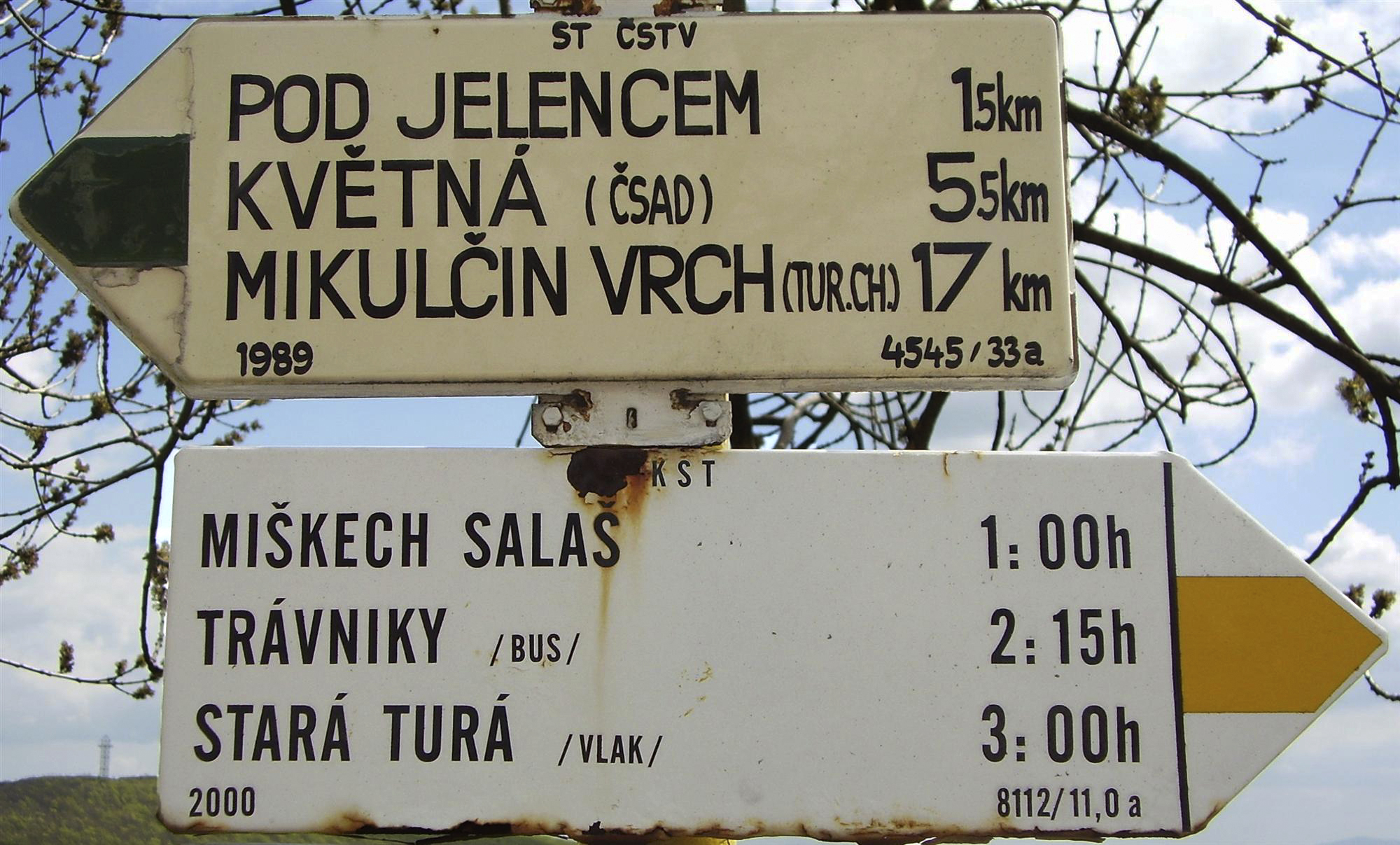 Veľká Javorina, Holubyho chata, Slovakia. Different hiking sings in Czechia and Slovakia.